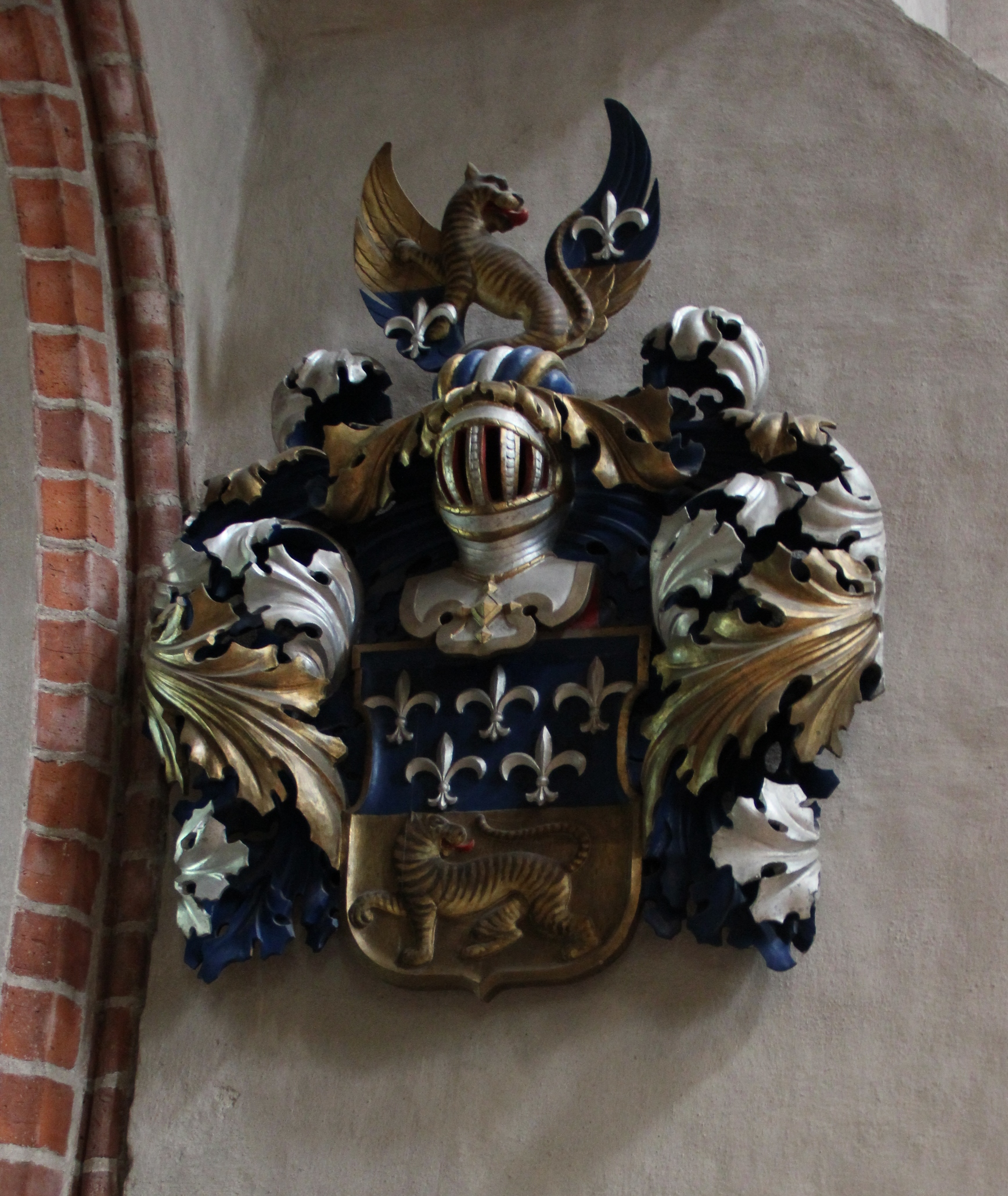 Coat of arms of the family Tigerstedt, in Turku Cathedral, Turku, Finland